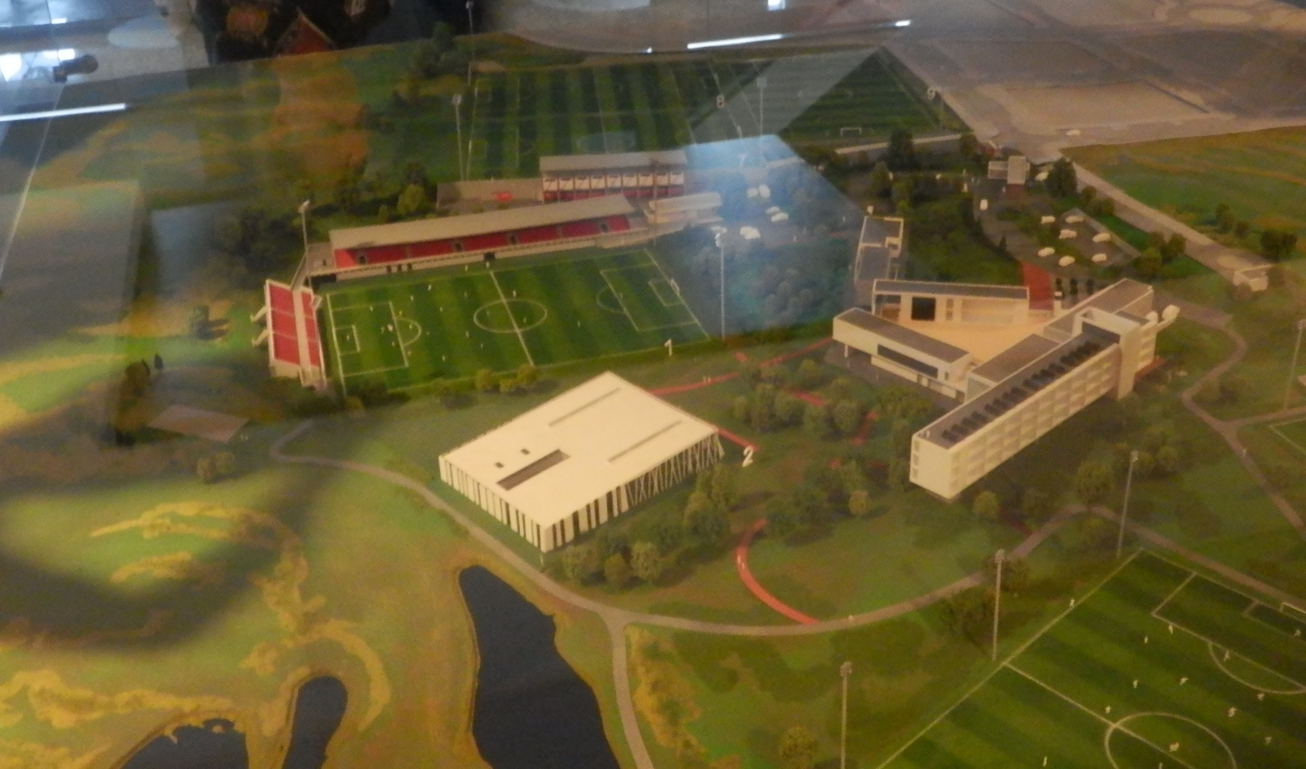 The updated model of the training center.